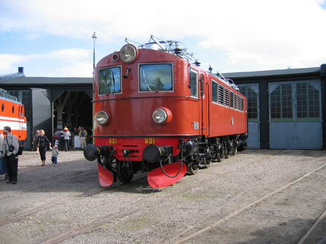 Swedish Railway class F at the swedish railwaymuseum in Gävle September 11, 2004